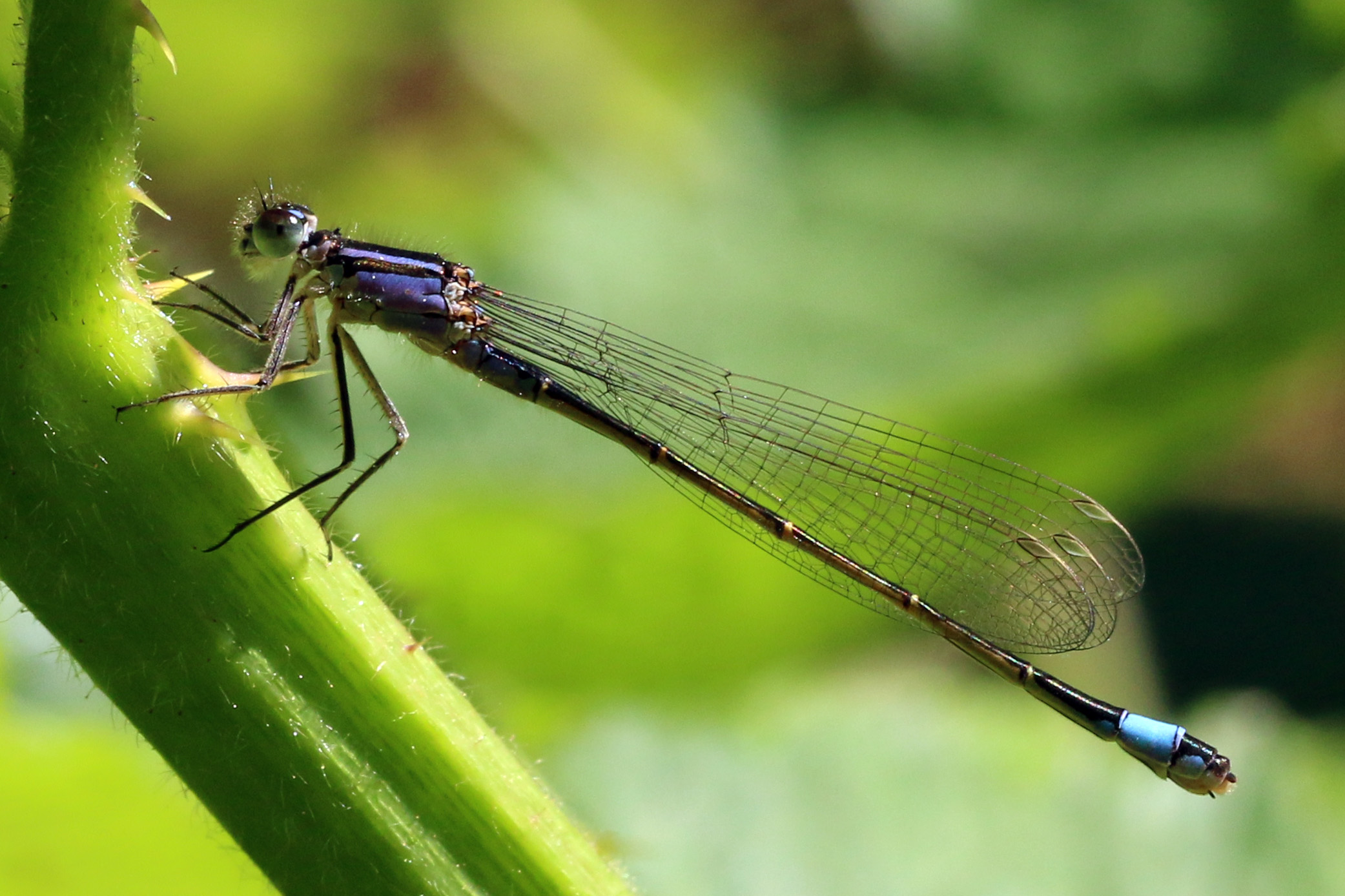 Blue-tailed damselfly (Ischnura elegans), male, Leek Wootton, Warwickshire